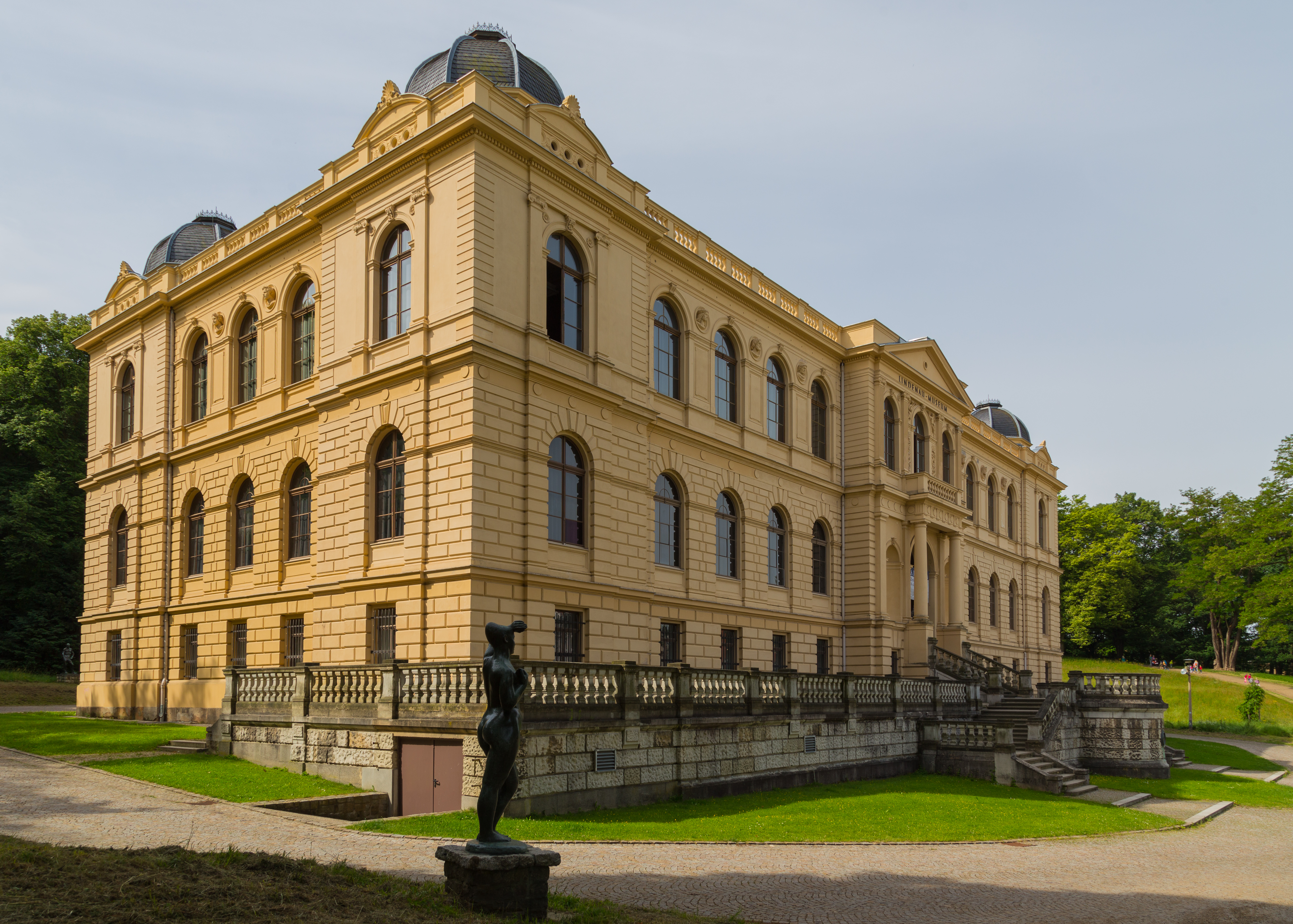 Lindenau Museum (Lindenau-Museum) in Altenburg, Landkreis Altenburger Land, Thuringia, Germany.